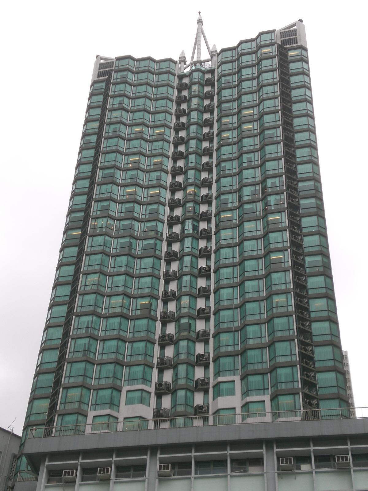 中環半山區宏基國際賓館